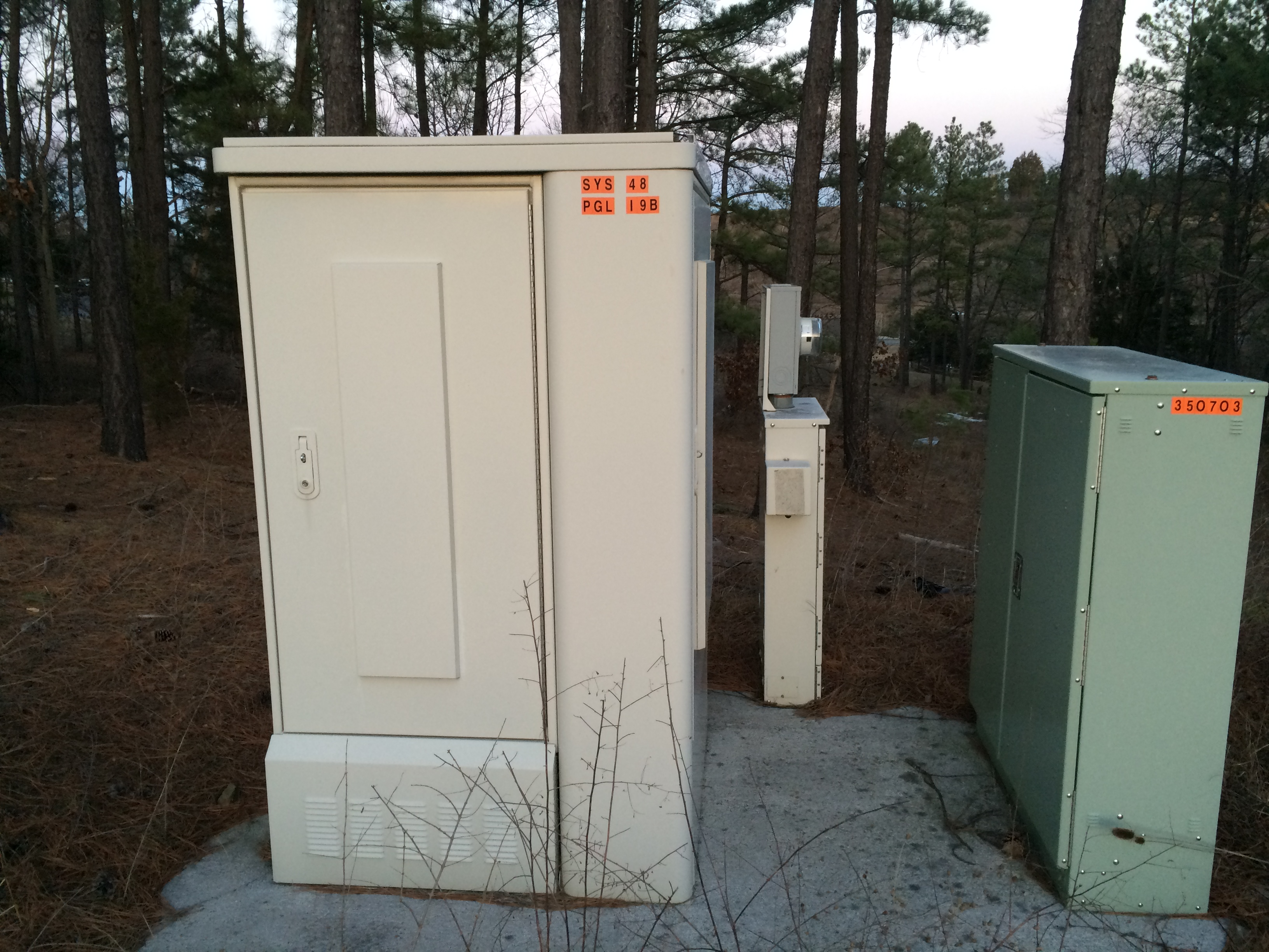 This is an example of a telecom remote terminal. The white cabinet is the remote terminal itself, the green cabinet is a crossbox. A remote terminal may contain a digital loop carrier, fiber mux, DSLAM, or other telecom equipment that interfaces with the local loop.